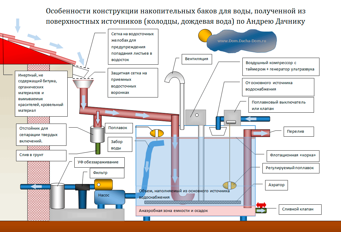 Rainwater treatment and house supply system.